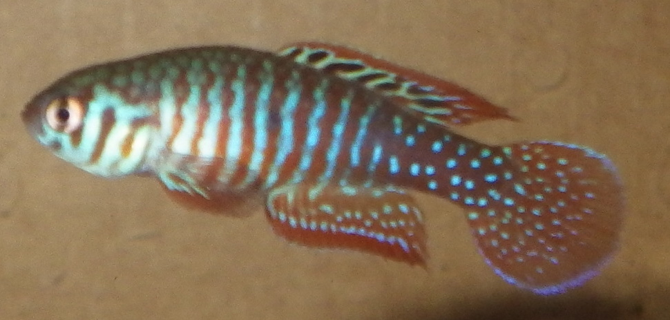 Male Simpsonichthys santanae